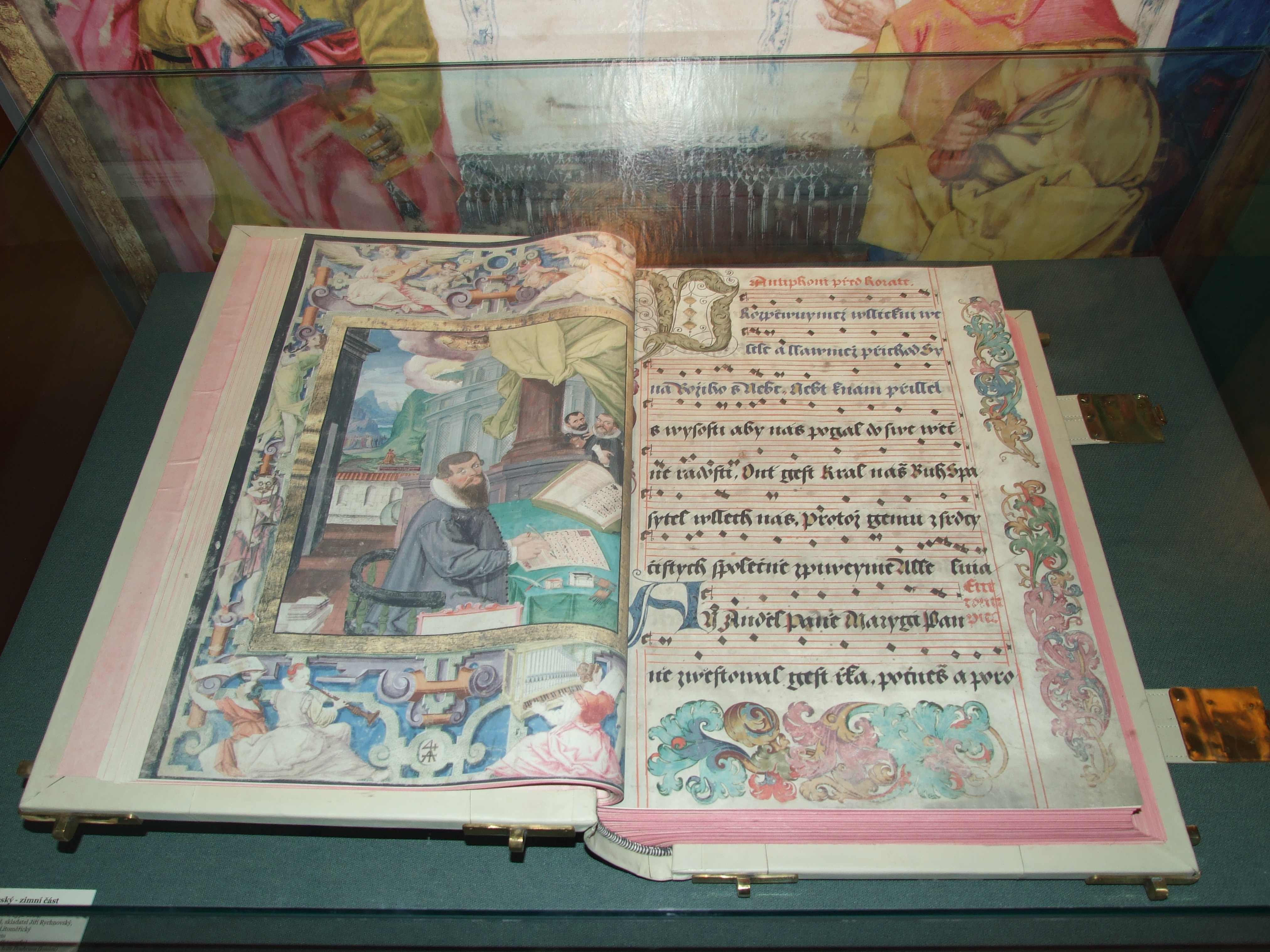 Bohemian Gradual - winter part, Hradec Králové, 1592-1604, mockup. Museum of Eastern Bohemia in Hradec Králové, Czech Republic